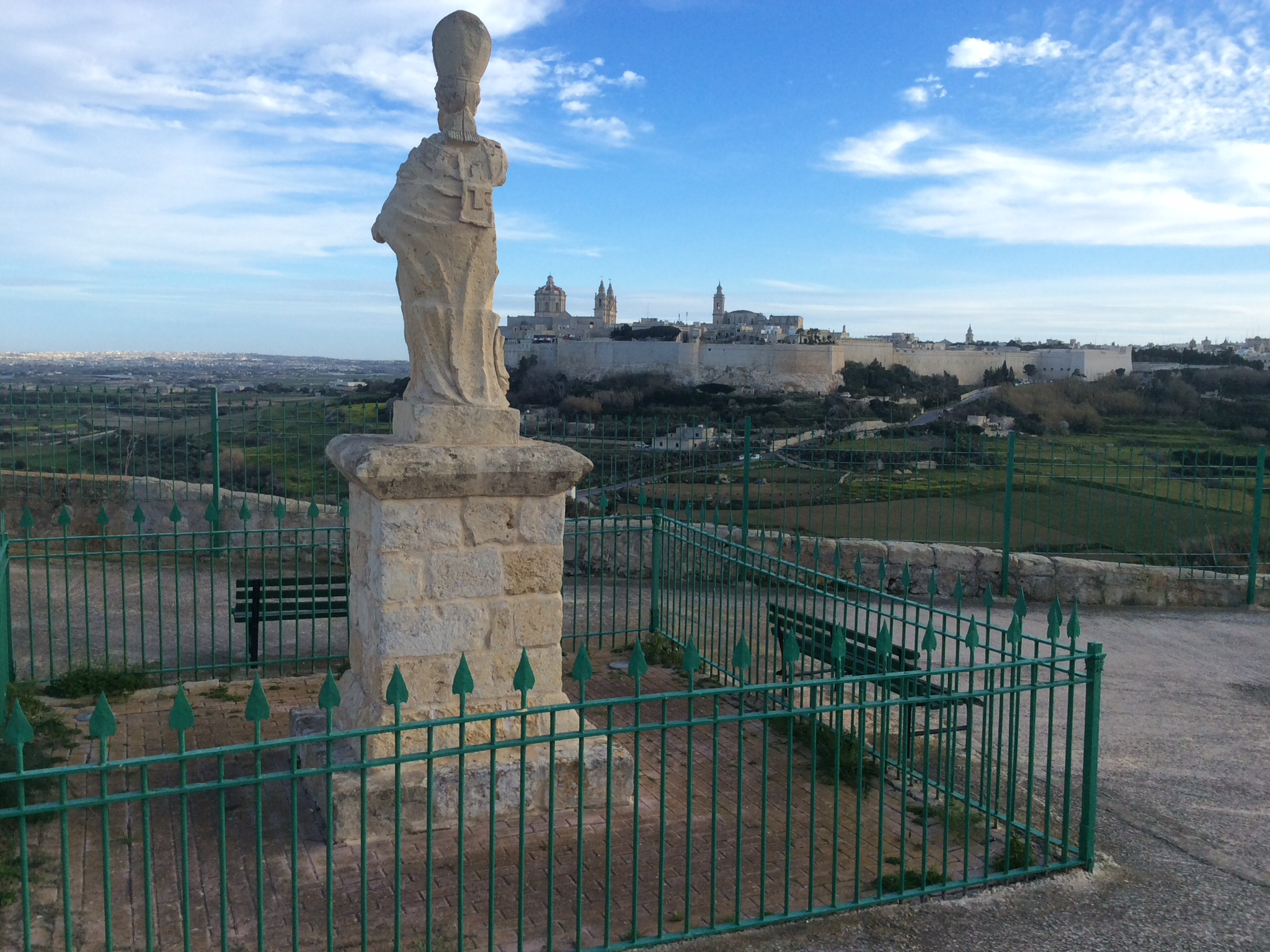 St Nicolas and Mdina